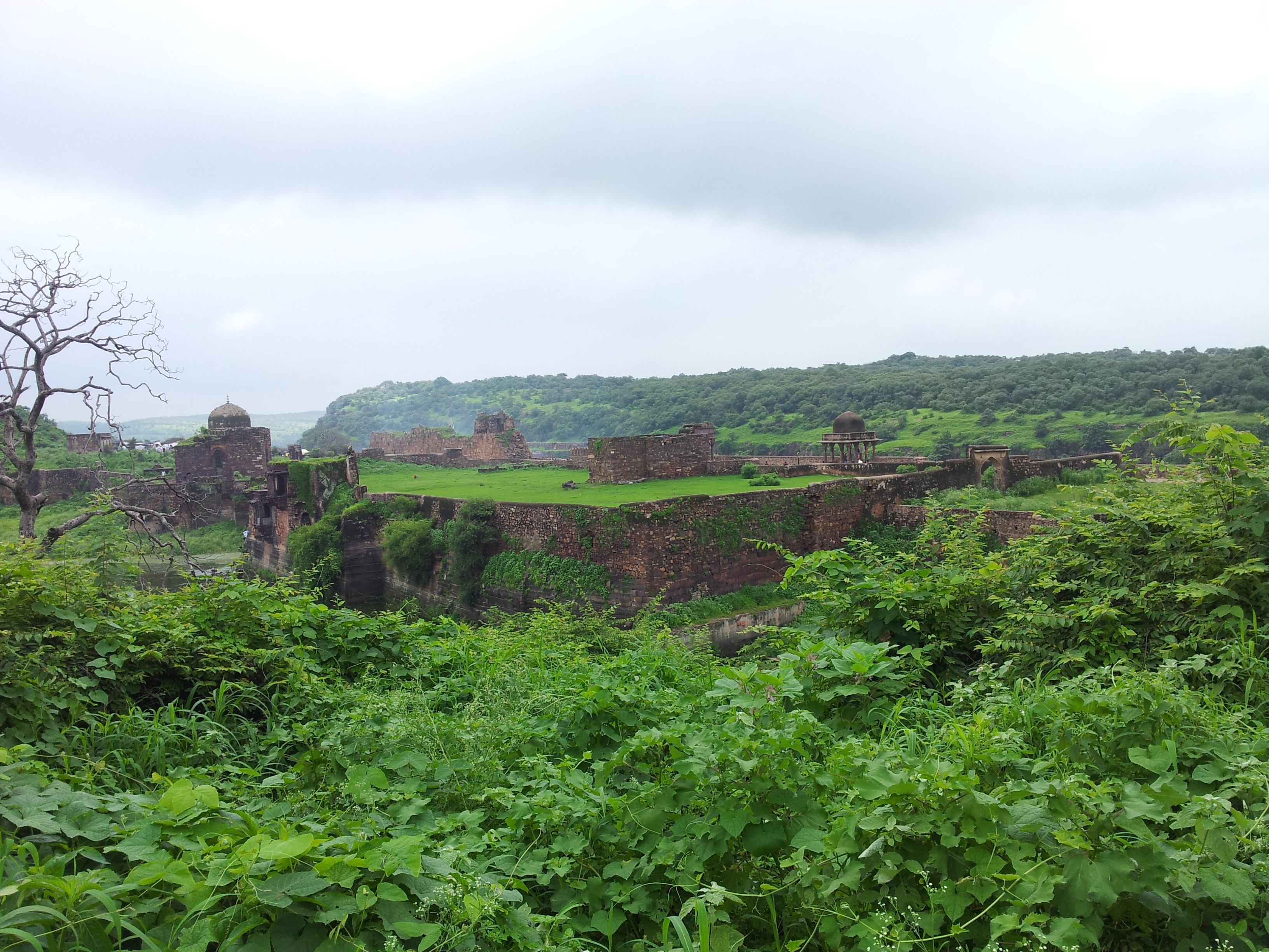 Rani Talab Within Ranthambore Fort Area in Sawai Madhopur Rajasthan India